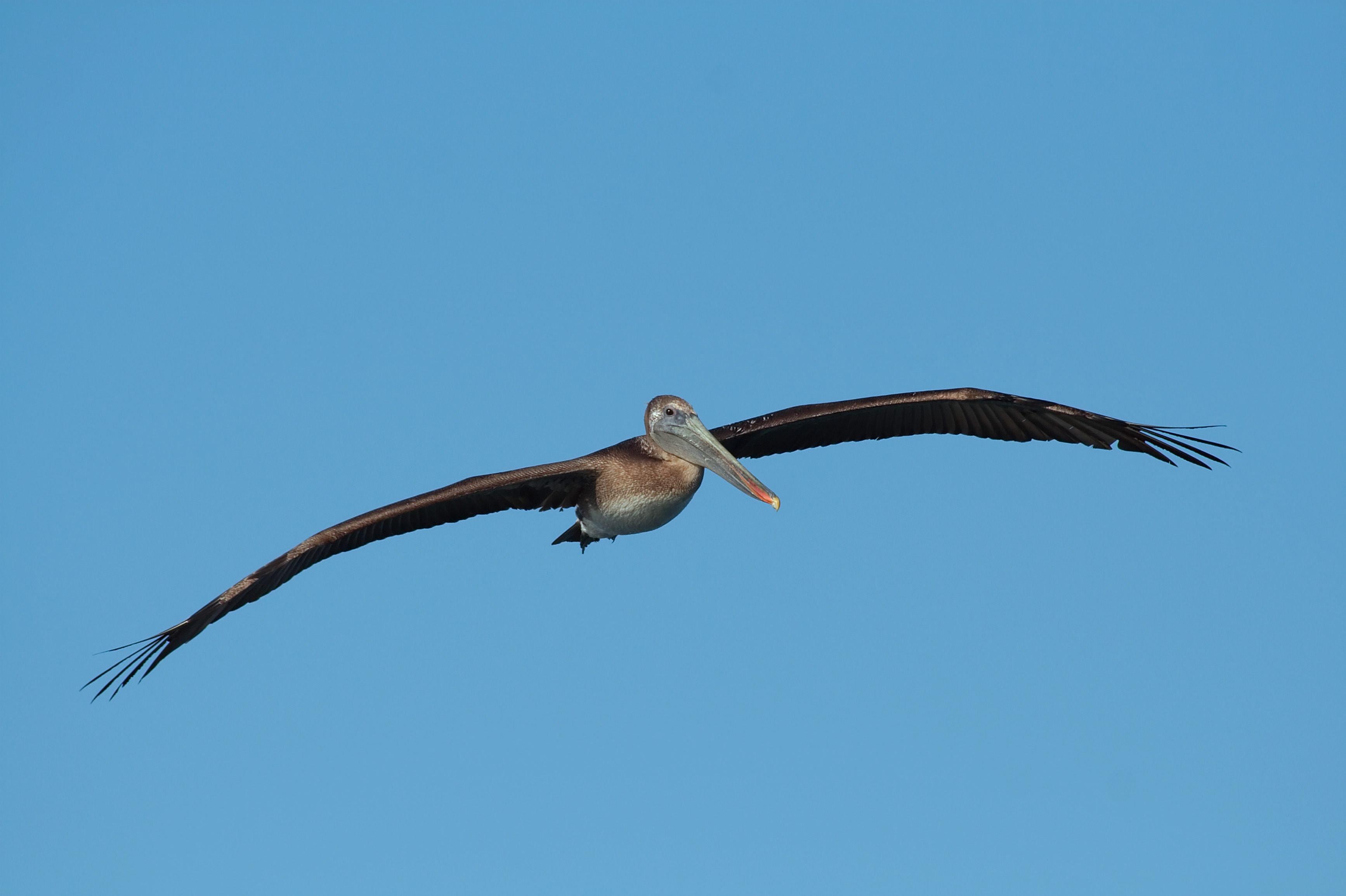 A brown pelican (Pelecanus occidentalis), in Santa Barbara, California.